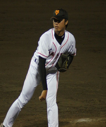 giants_lin_96